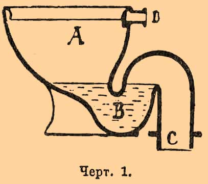 Illustration from Brockhaus and Efron Encyclopedic Dictionary (1890—1907)